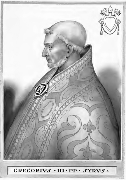 This illustration is from The Lives and Times of the Popes by Chevalier Artaud de Montor, New York: The Catholic Publication Society of America, 1911. It was originally published in 1842.